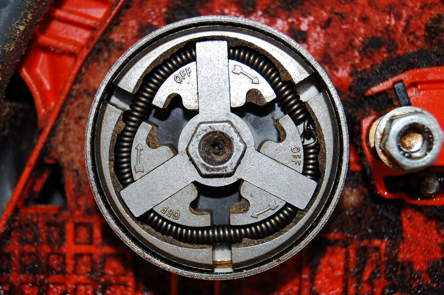 Close up of the centrifugal clutch on a chainsaw